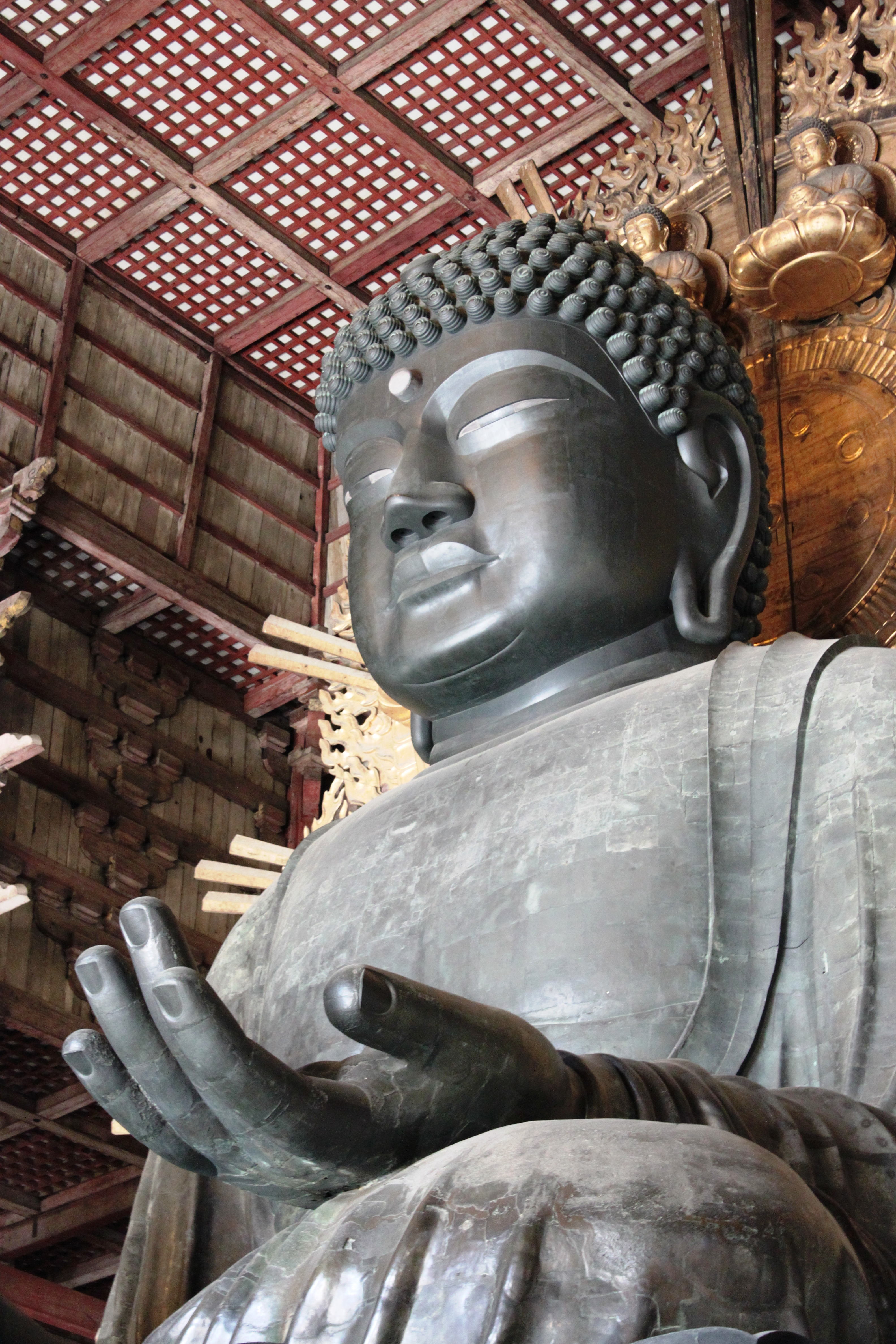 The Vairocana of Todaiji Temple, Nara, Japan.